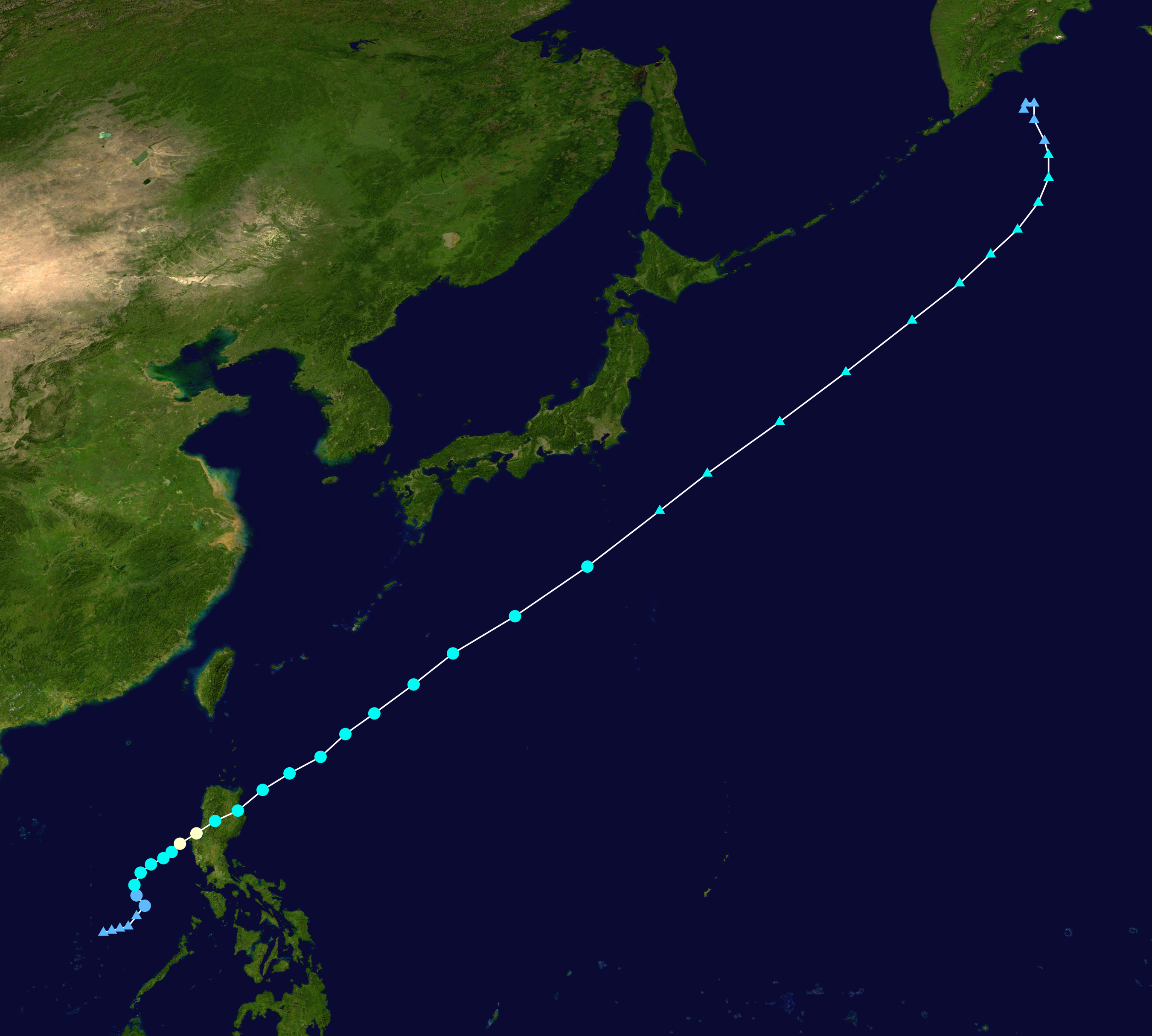 Track map of Severe Tropical Storm Halong of the 2008 Pacific typhoon season. The points show the location of the storm at 6-hour intervals. The colour represents the storm's maximum sustained wind speeds as classified in the Saffir–Simpson scale (see below), and the shape of the data points represent the nature of the storm, according to the legend below. Saffir–Simpson scale Tropical depression≤38 mph≤62 km/h Category 3111–129 mph178–208 km/h Tropical storm39–73 mph63–118 km/h Category 4130–156 mph209–251 km/h Category 174–95 mph119–153 km/h Category 5≥157 mph≥252 km/h Category 296–110 mph154–177 km/h Unknown Storm type Tropical cyclone Subtropical cyclone Extratropical cyclone / Remnant low / Tropical disturbance / Monsoon depression